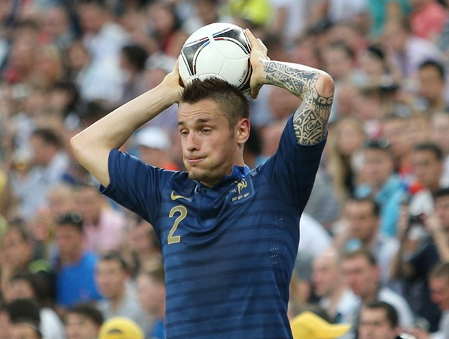 UEFA Euro 2012 match between France and England played in Donetsk at Donbas Arena. Final result was 1:1 (Nasri, Lescott).